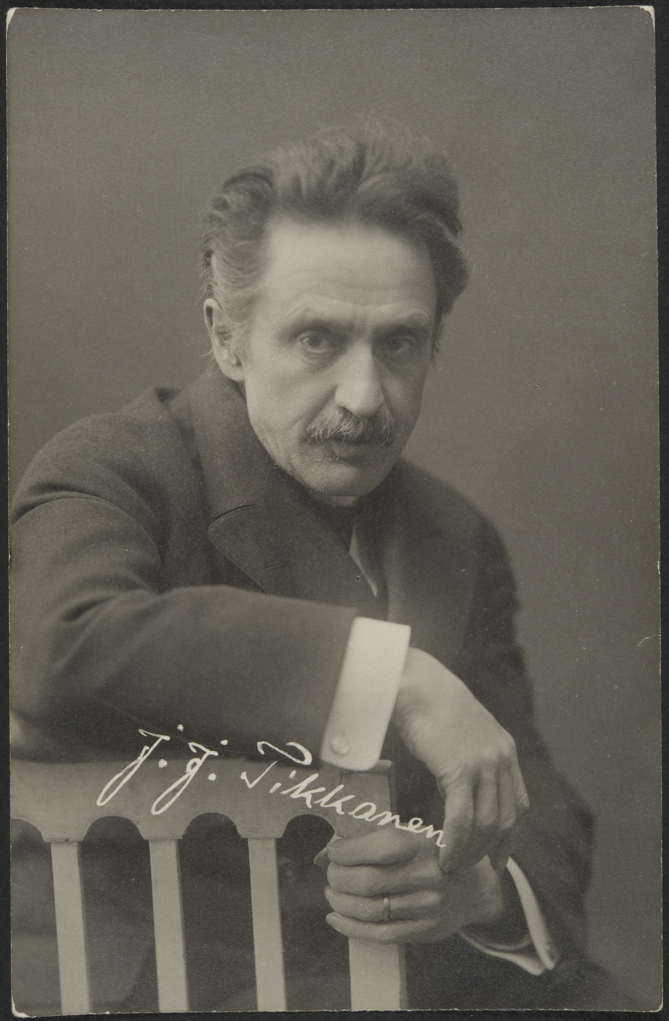 Photograph of the Finnish art historian Johan Jakob Tikkanen (1857–1930).